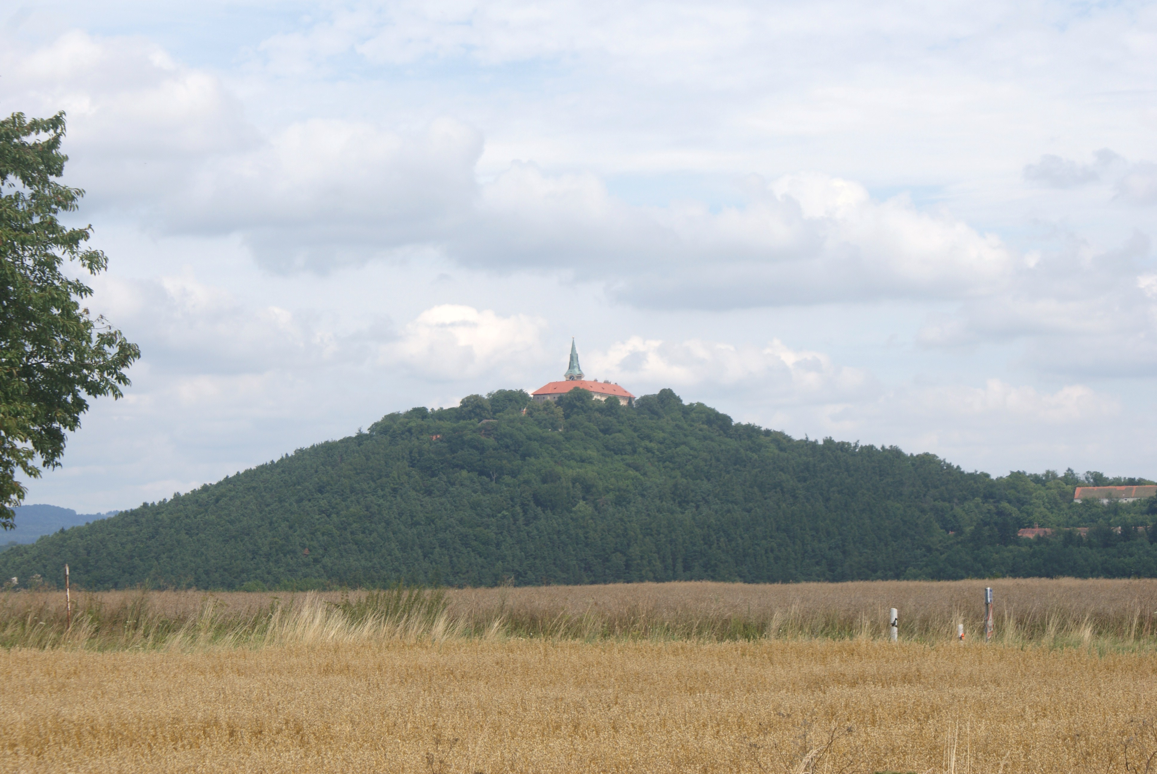 Nepomuk, a town in Plzeň-South District, Czech Rep., the Zelená Hora castle.